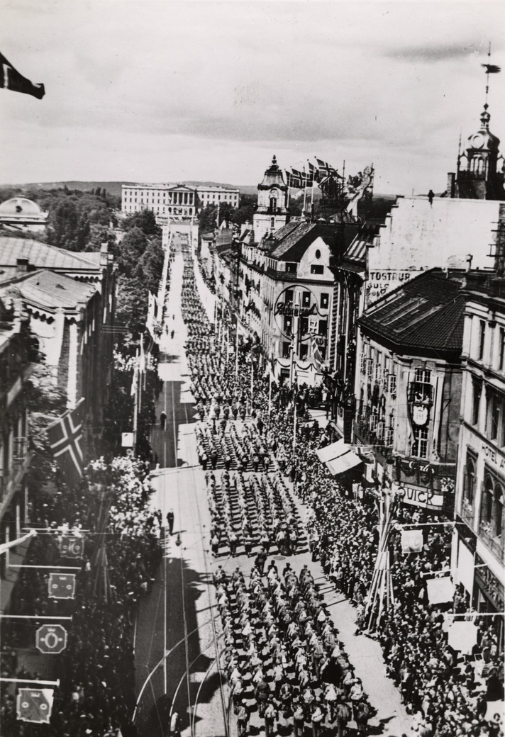 King Haakon returns to Norway after World War II.